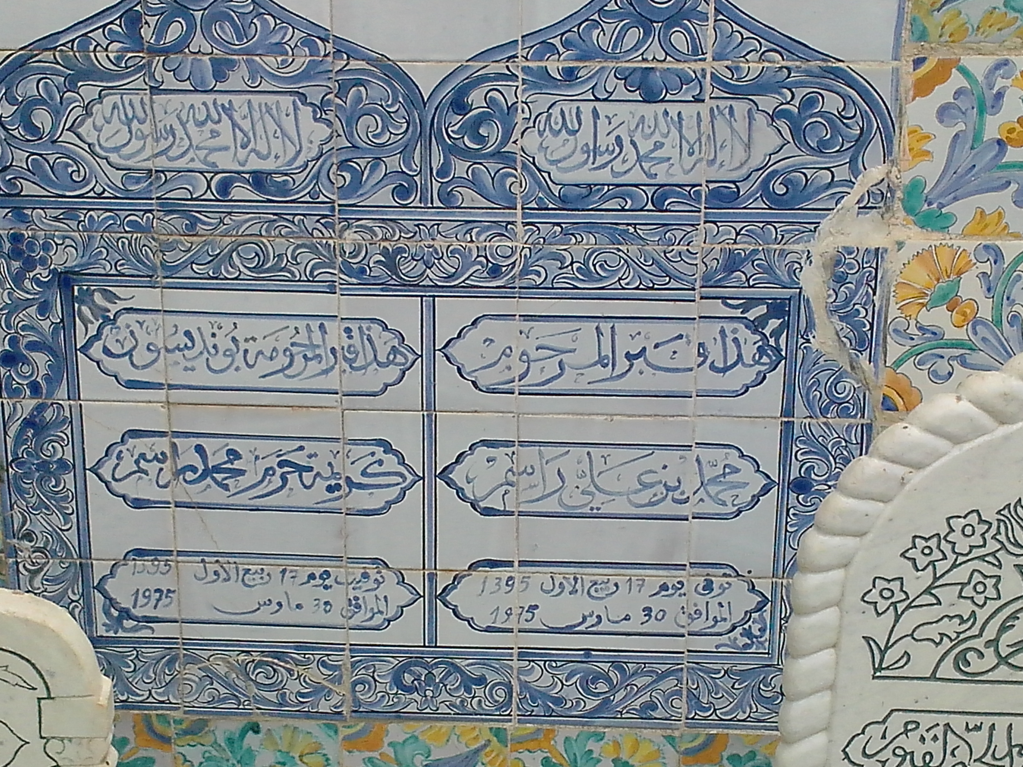 tombe